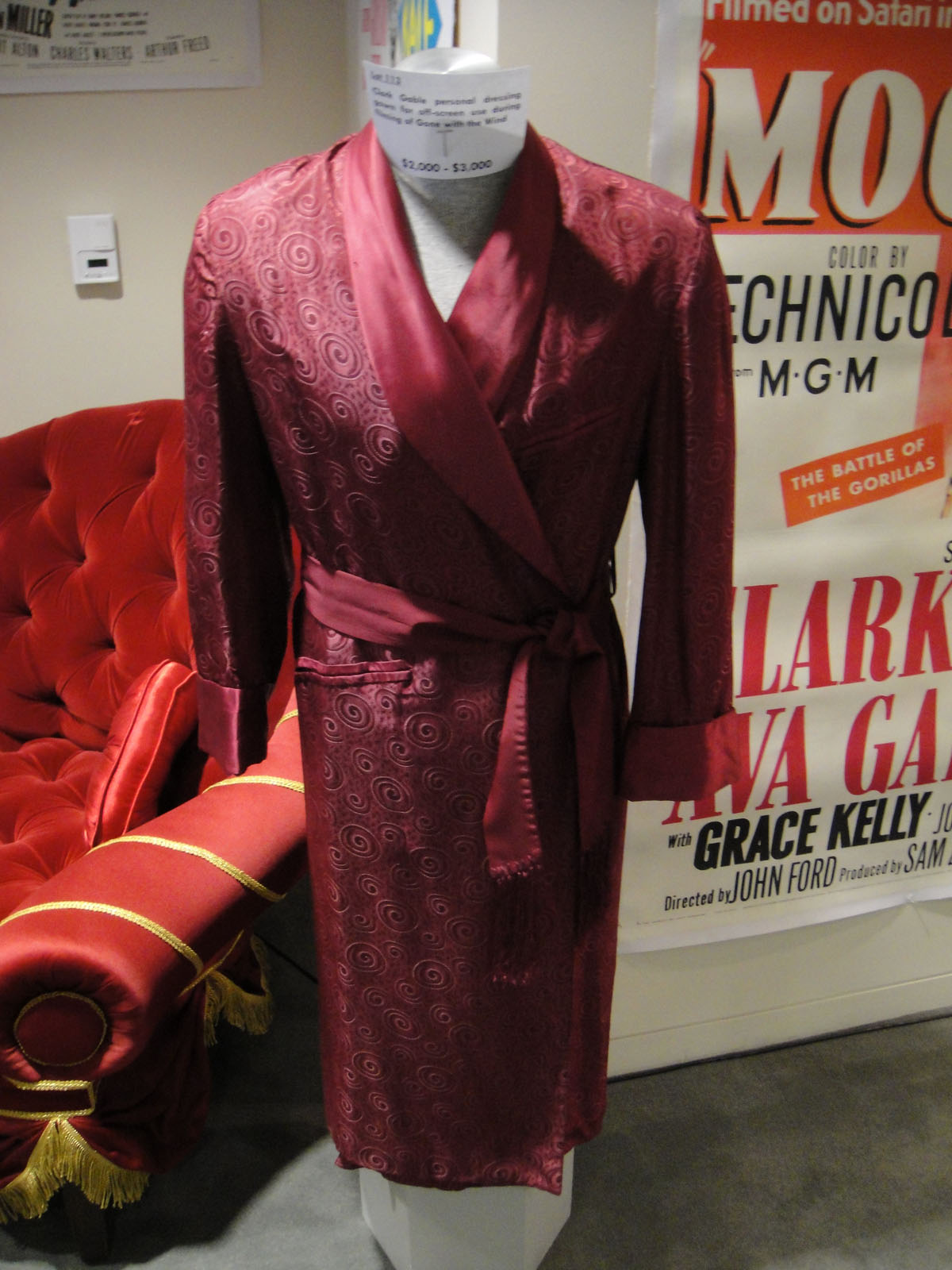 Clark Gable personal dressing gown for off-screen use during filming of "Gone with the Wind" at the Debbie Reynolds Auction Breaks Up Historic Hollywood Collection (The Paley Center for Media in Beverly Hills, Los Angeles, CA, USA).On the background are visible the posters of the films Kiss Me Kate and Mogambo.